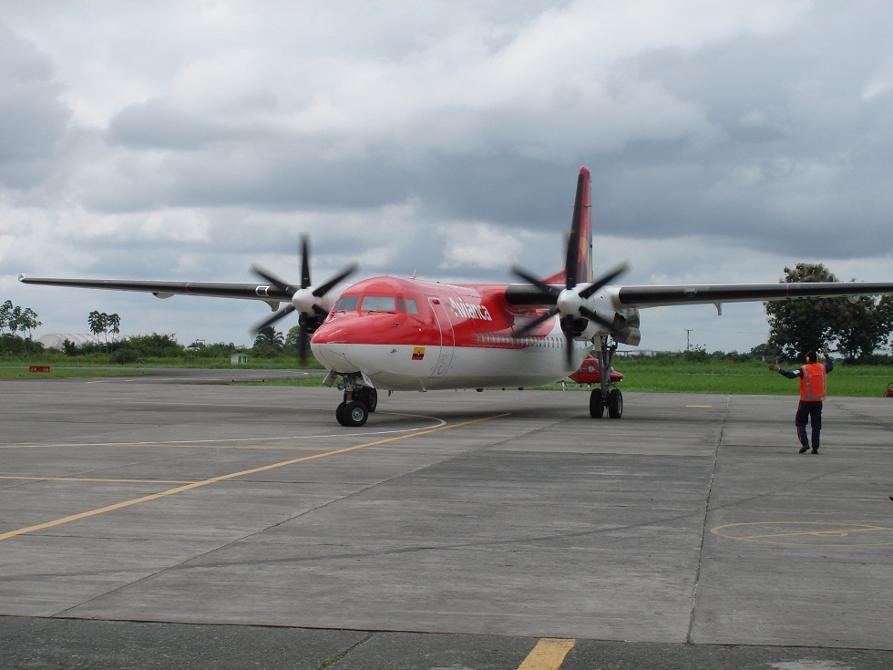 Fokker F50 en el aeropuerto La Florida de Tumaco